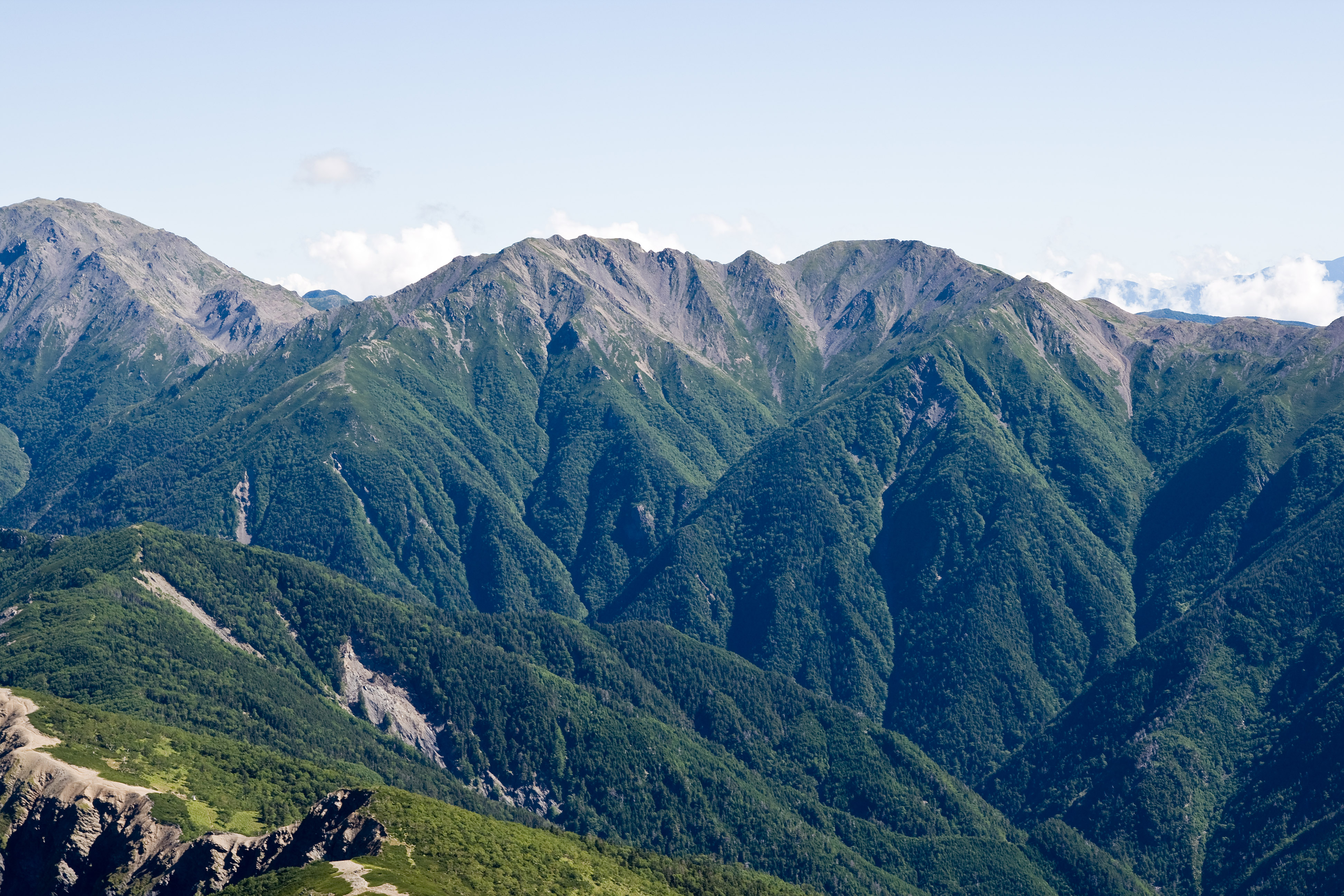 Mt.Notori (農鳥岳 のうとりだけ Noutori-dake) as seen from Mt.Shiomidake, Akaishi Mountains Nagano and Shizuoka Prefectures, Honshu, Japan.